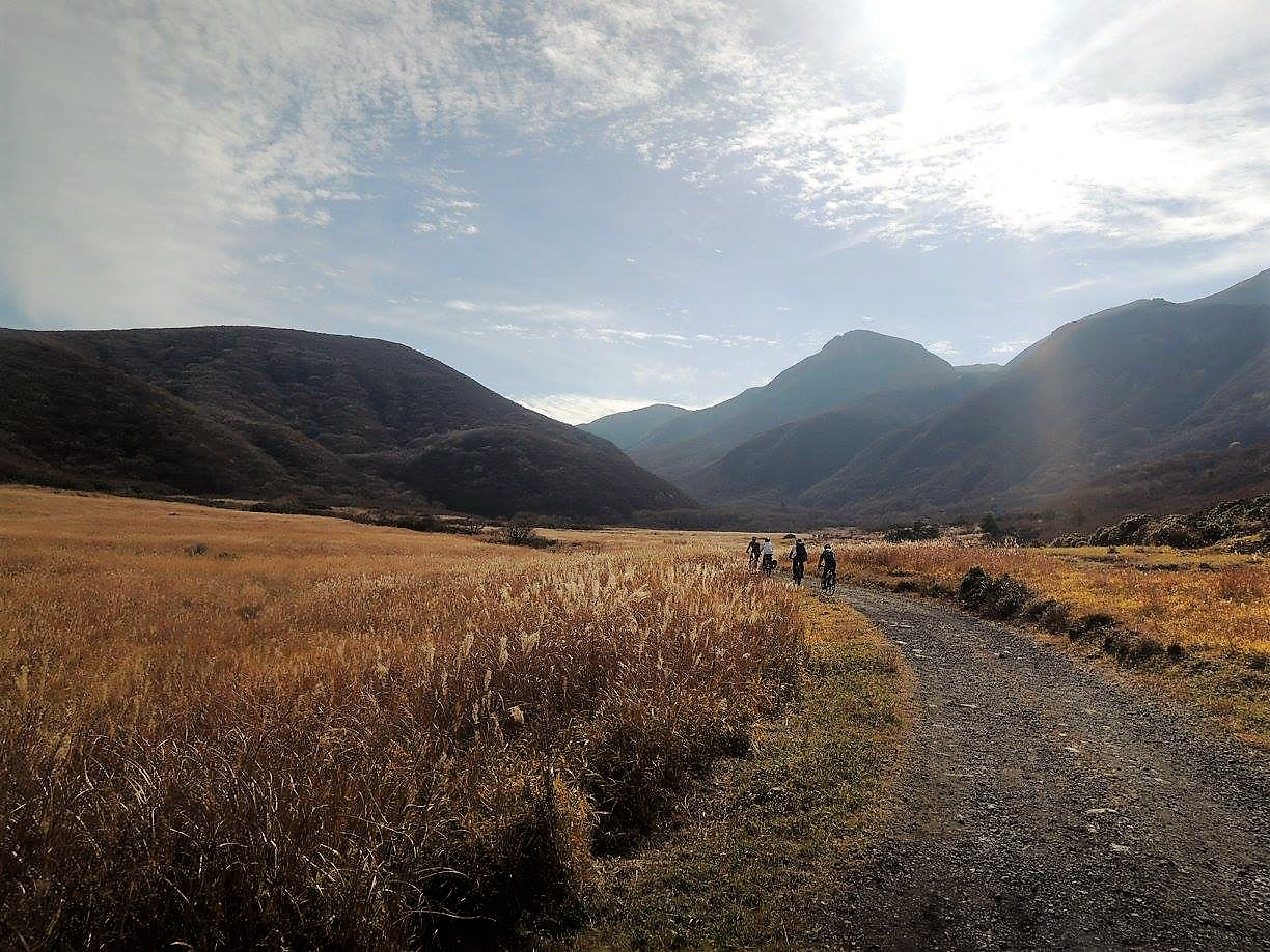 MTBs and bougatsuru wetland